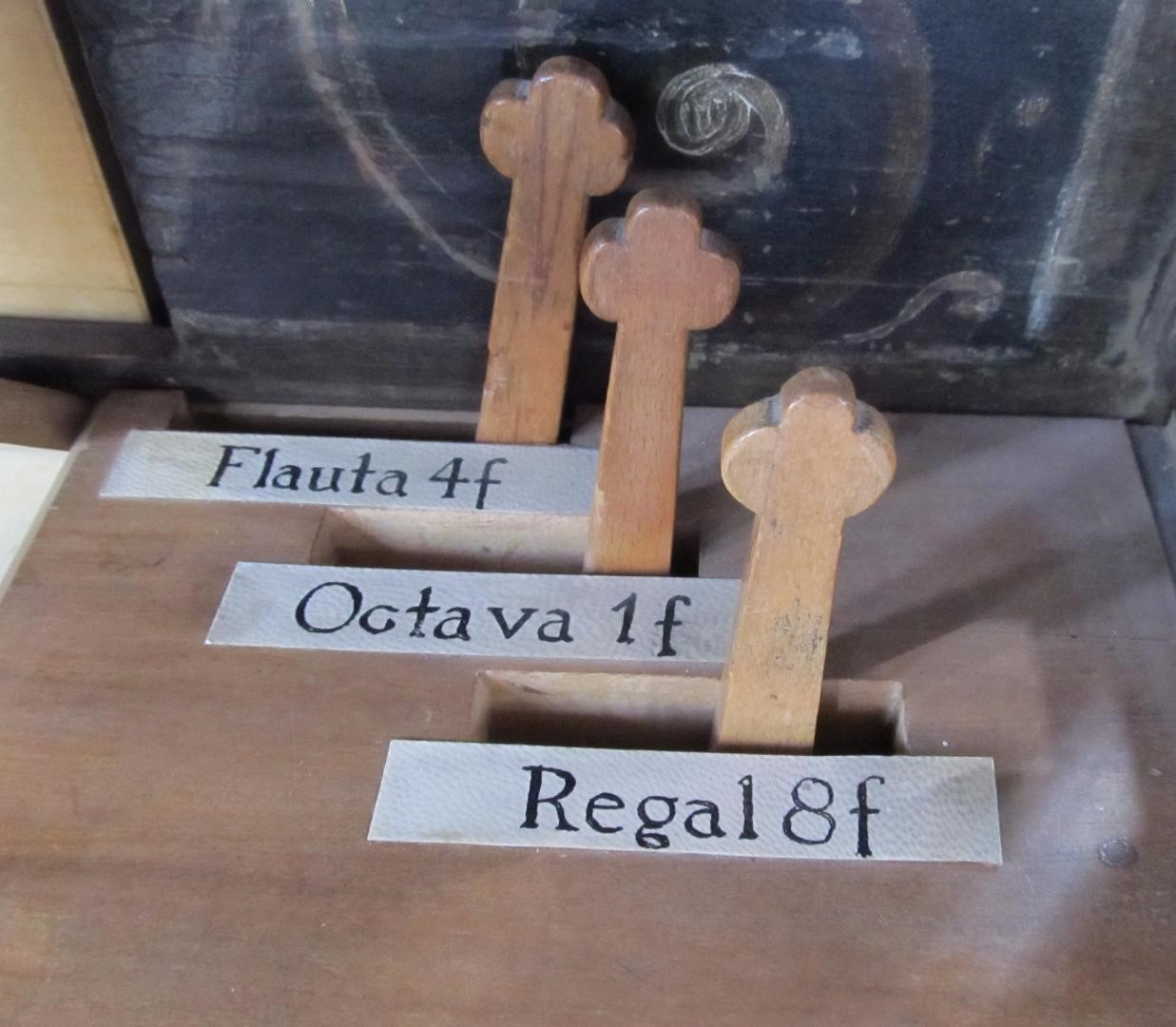 right part of the keyboard with 3 stops